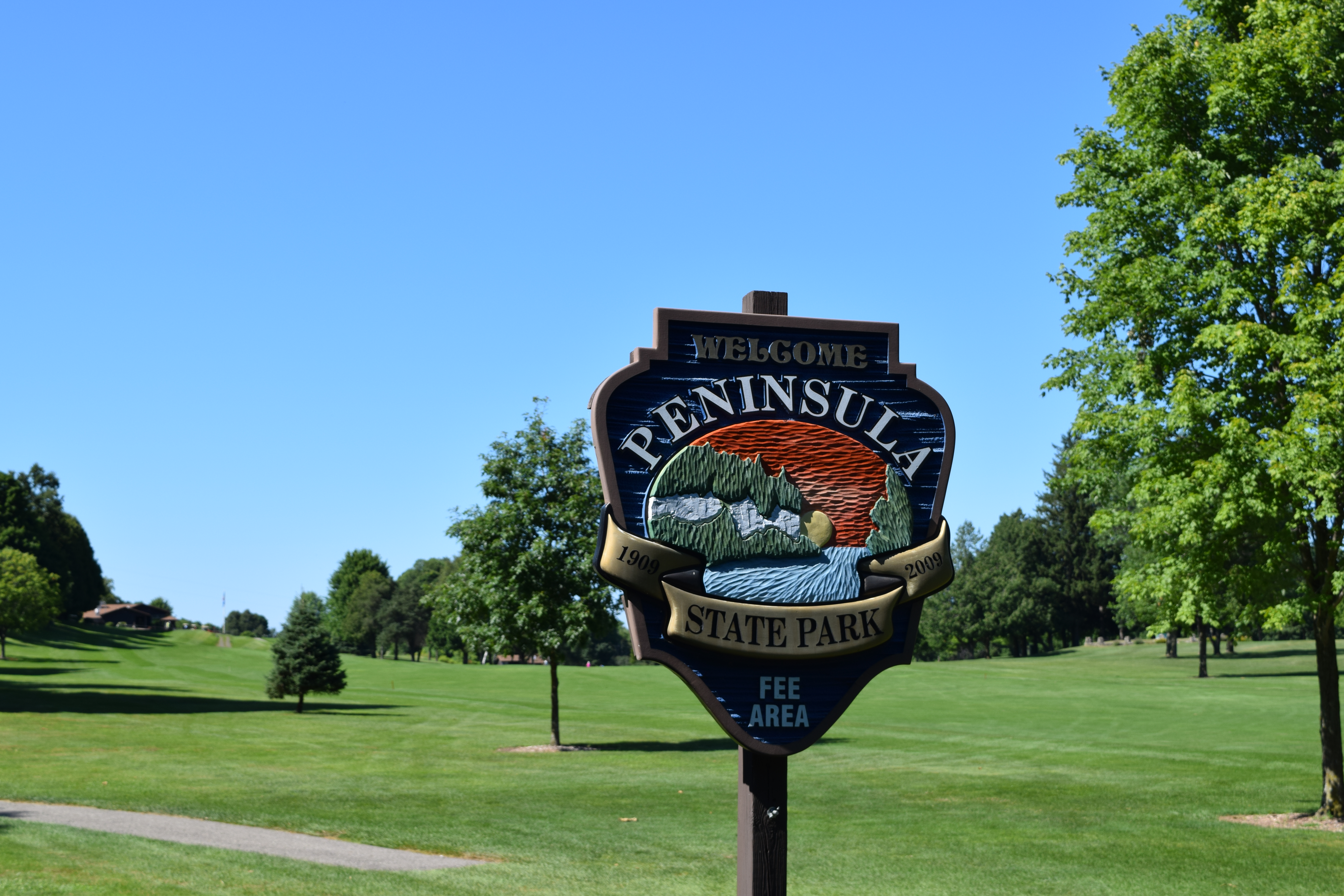 Peninsula State Park sign at the golf course